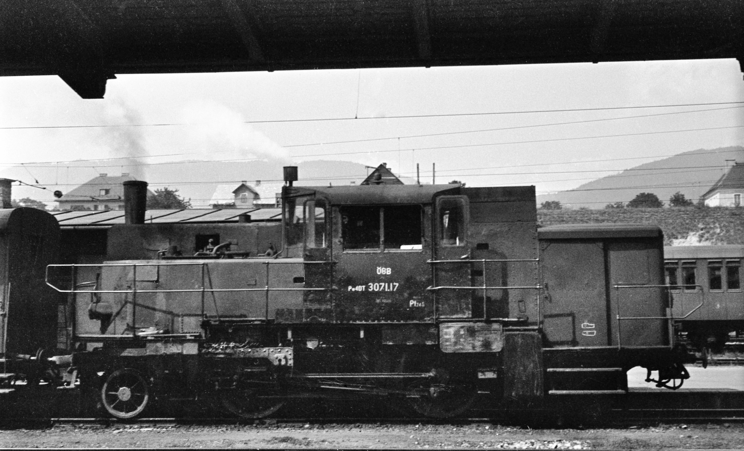 2-4-2T engine with baggage compartment 3071.17 at Villach Hbf.